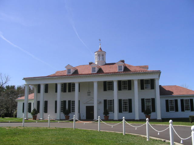 Front of Arlington Cemetery Co Main Building